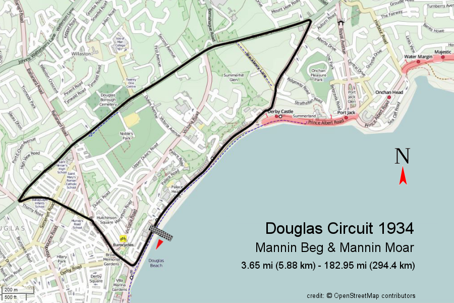 Douglas Circuit 1934 (Isle of Man)